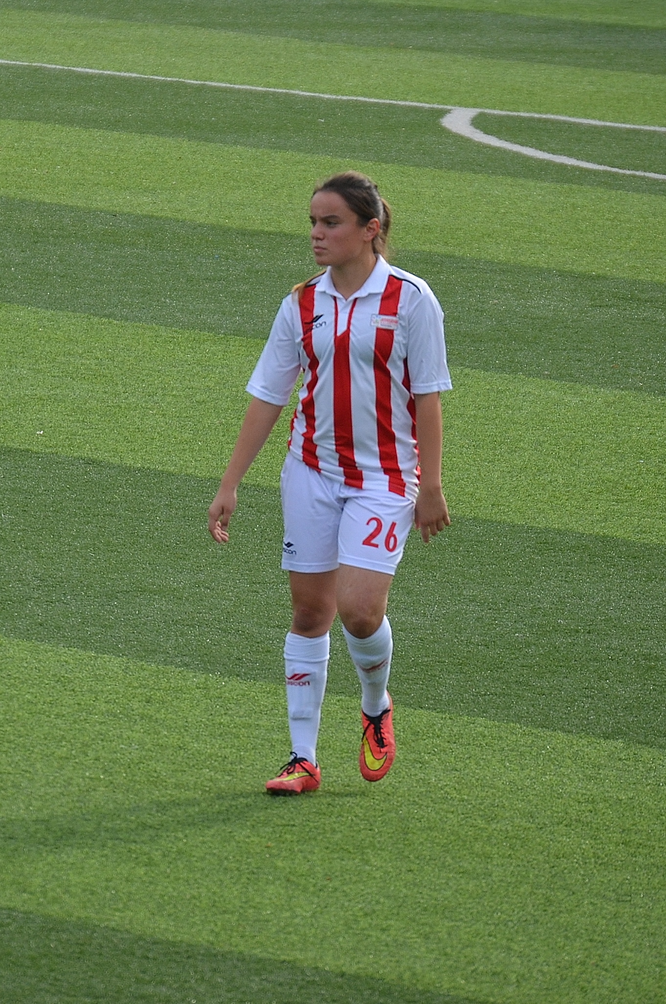 Medine Erkan for Ataşehir Belediyespor